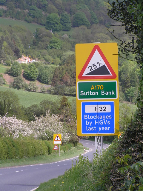 Warning signs on the approach to Sutton Bank The A170 climbs to the North York Moors plateau by this route and it is very steep for an A road. Caravans are banned and as the sign indicates, HGVs are likely to have problems especially at the hairpin bend halfway up.